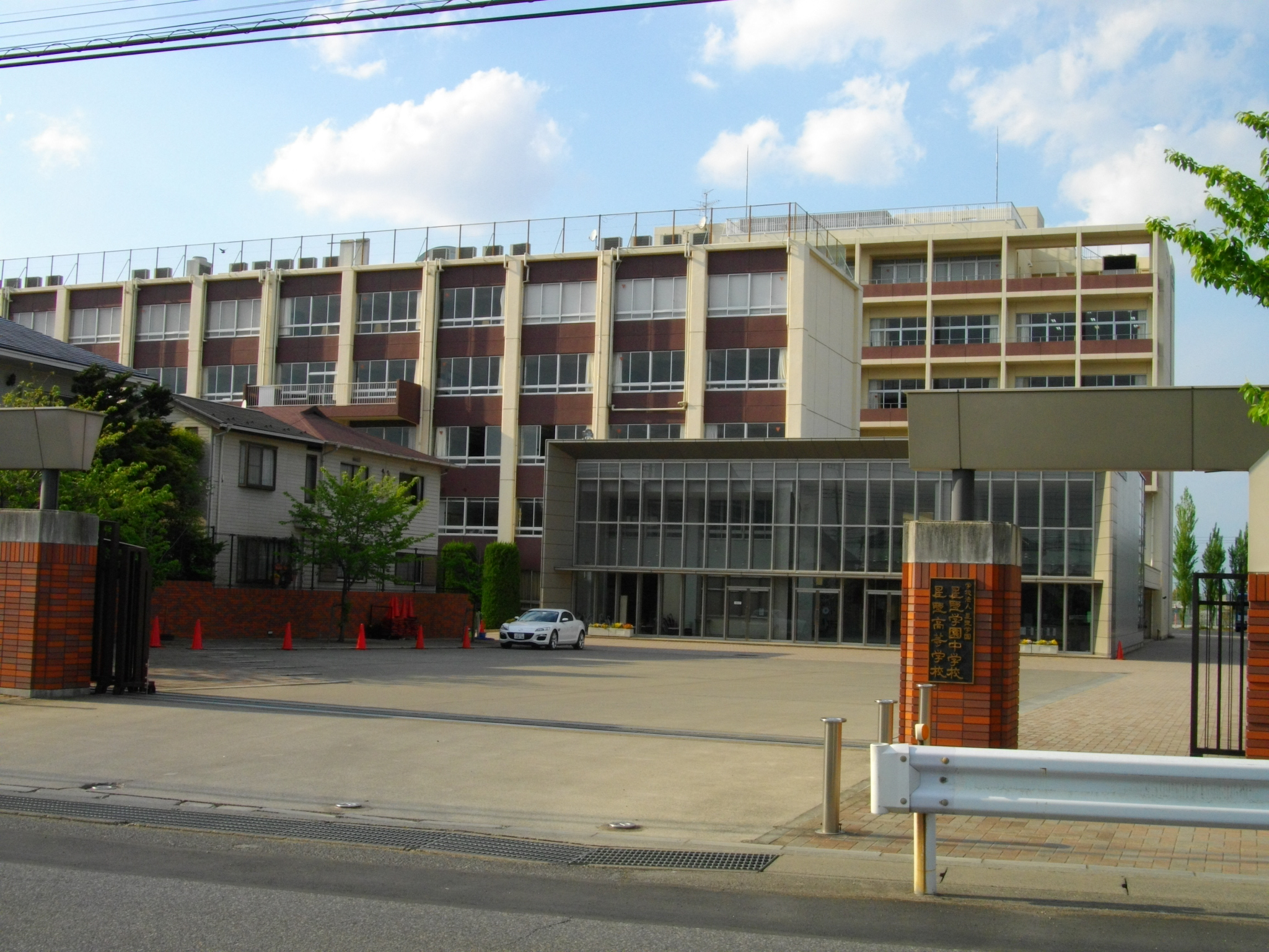 Hoshino High School 2nd Campus